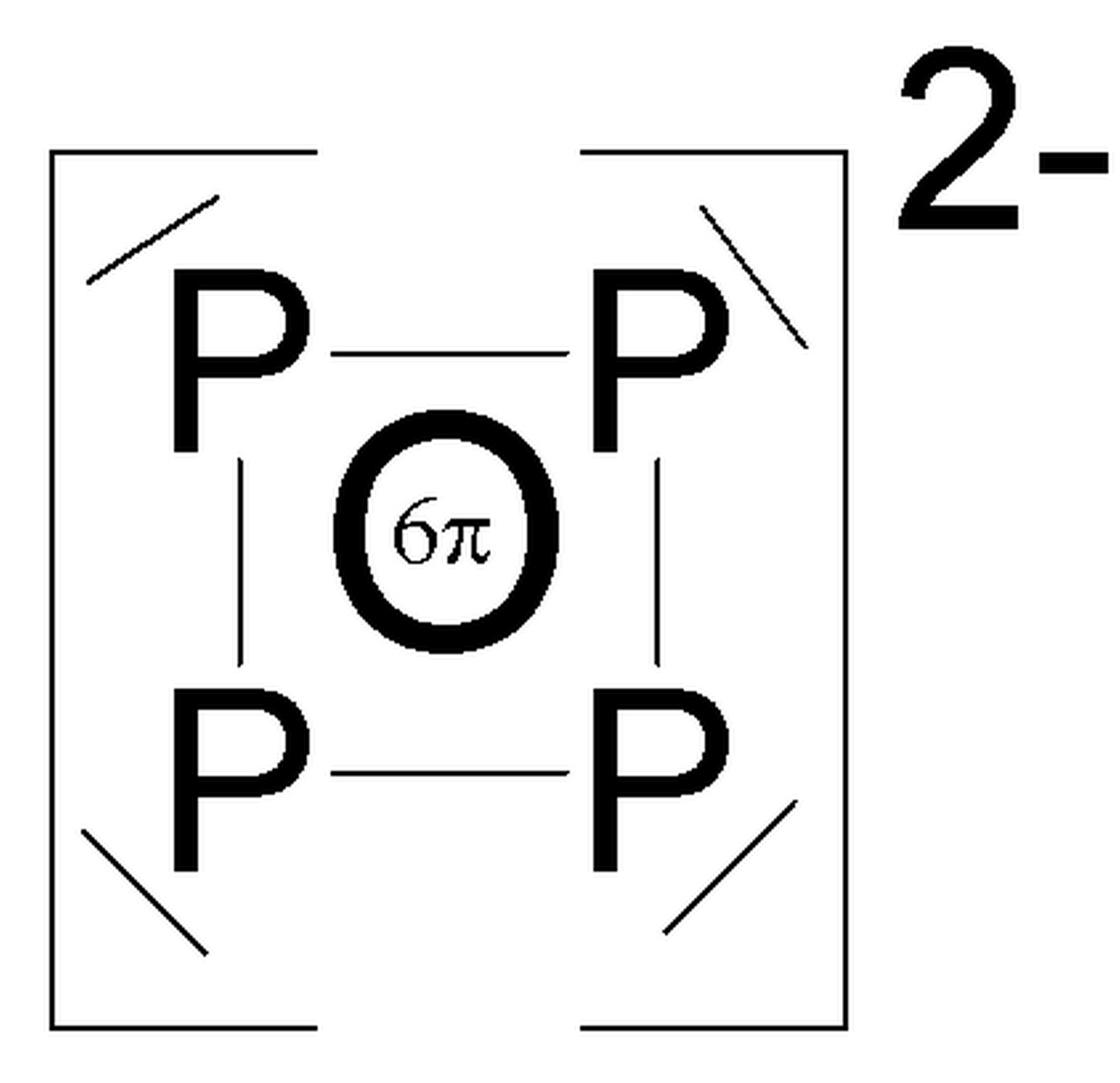 Polyphosphide ion